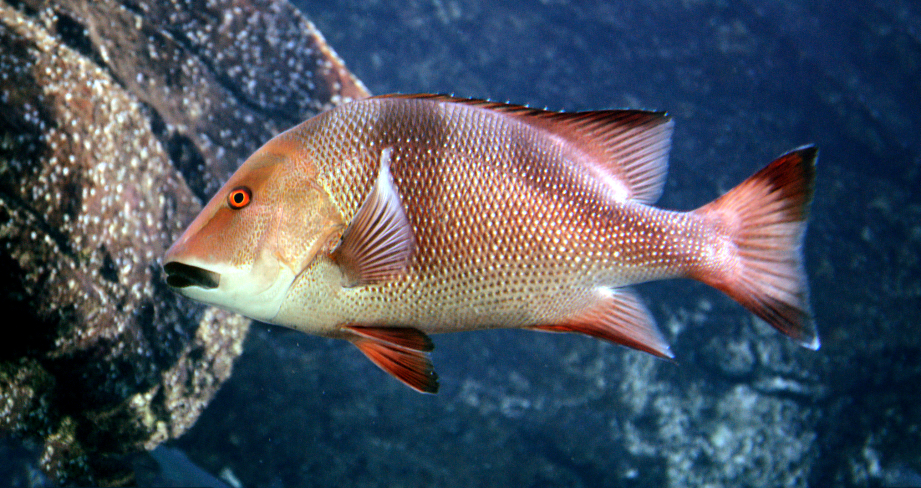 emperor red snapper or bourgeois red snapper in uShaka Sea World